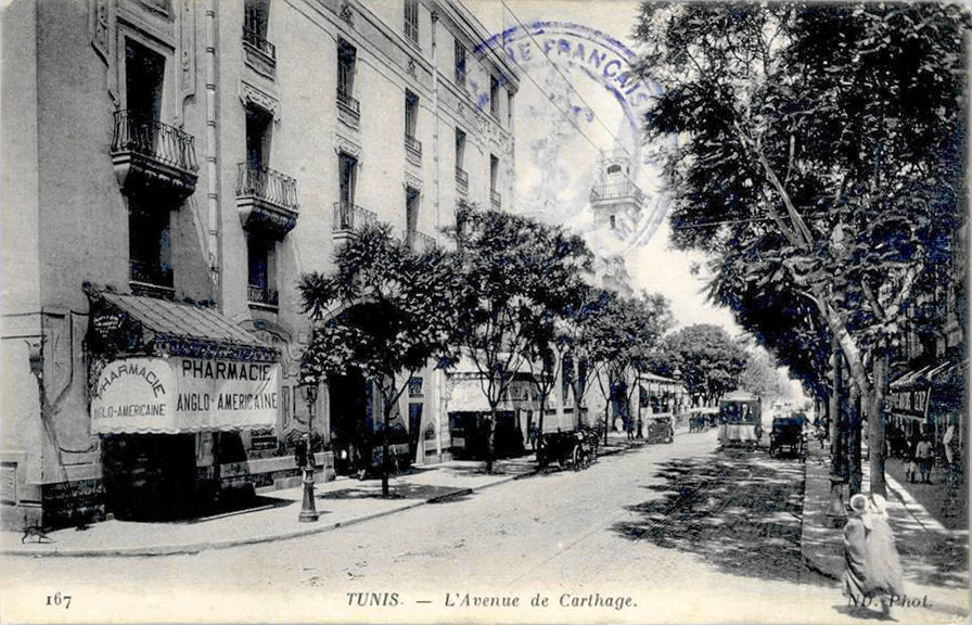 Horse tram in Tunis.